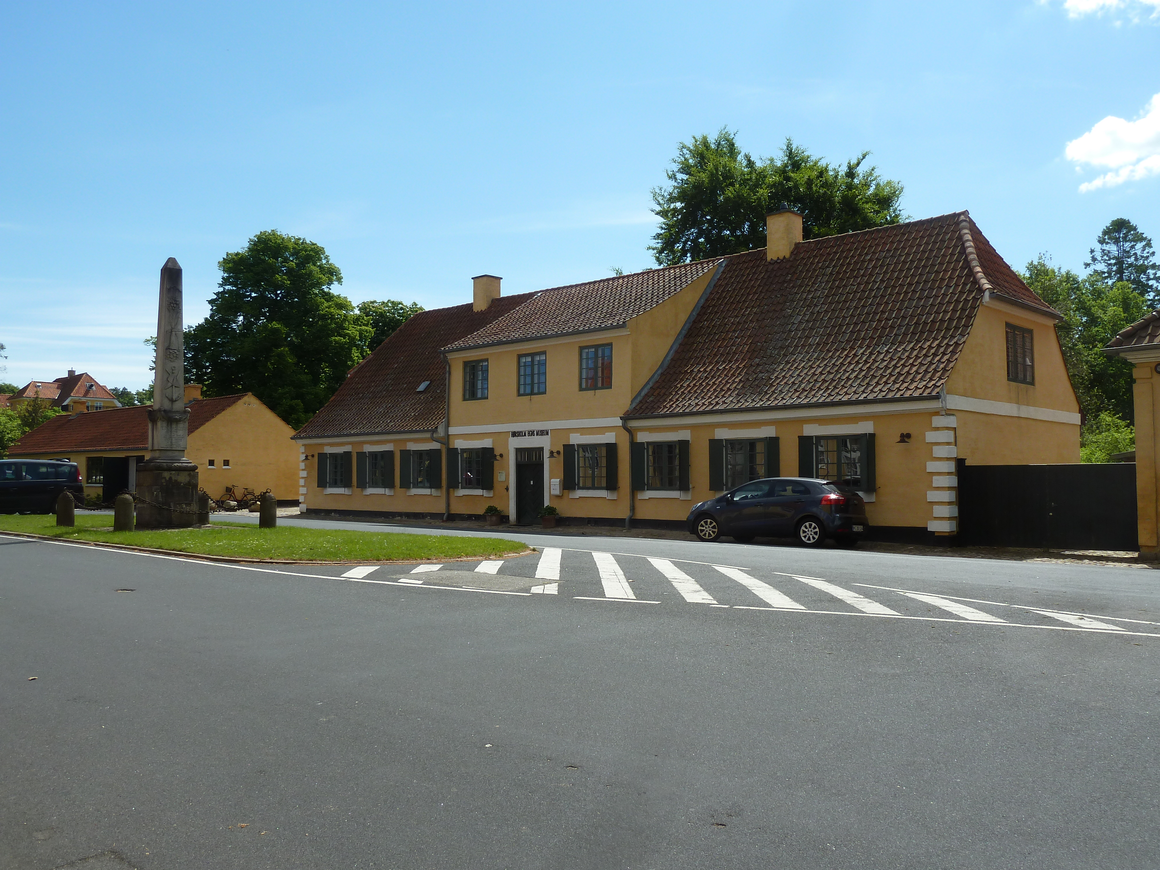 The local history museum Hørsholm Egns Museum, Hørsholm in Denmark.